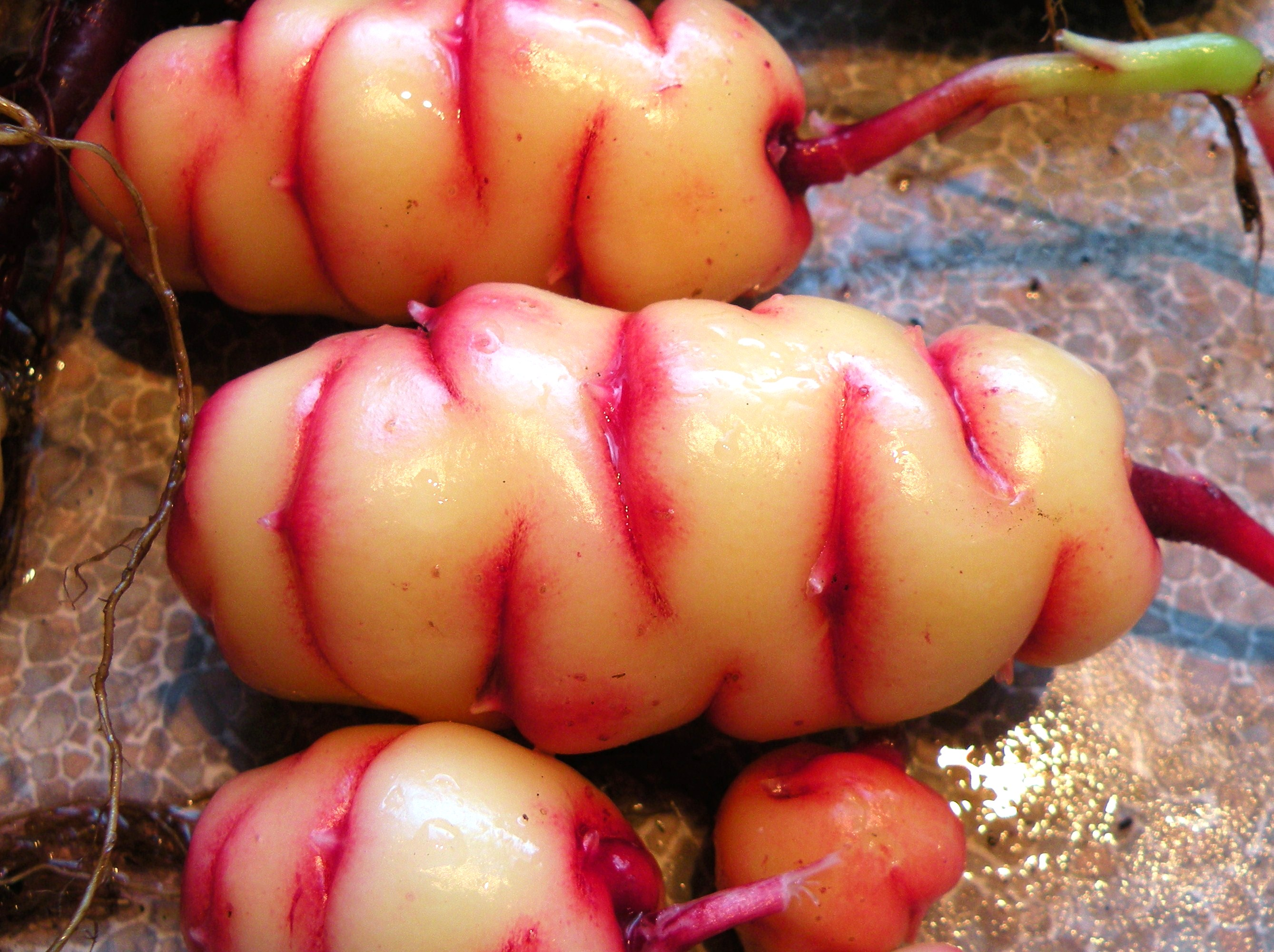 Close-up of an 'apricot' NZ yam, freshly dug up, May 2012